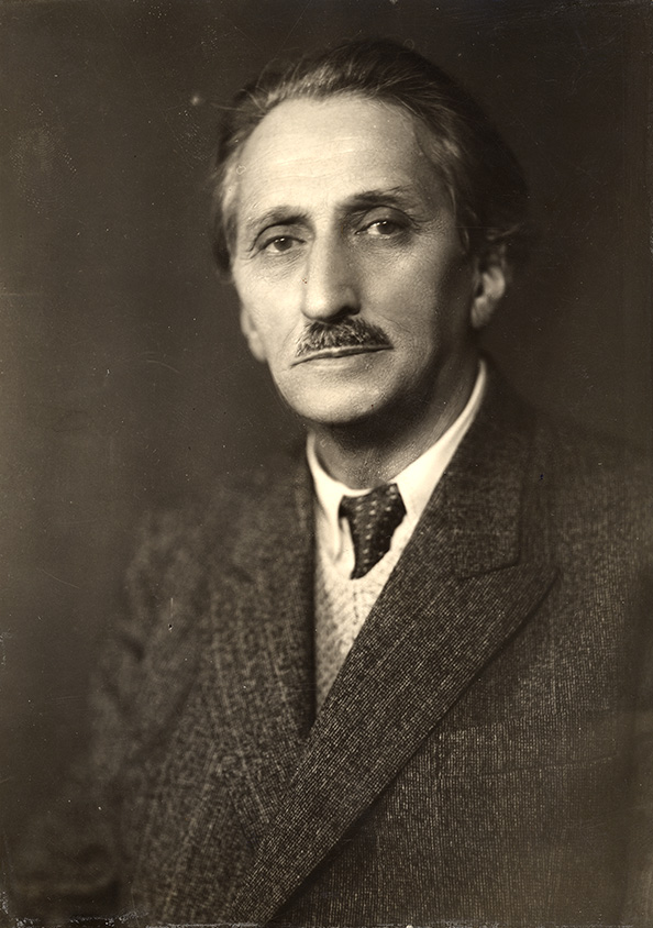 Portrait of Barbu Lazareanu, personal photography donated to the Romanian Academy Library.